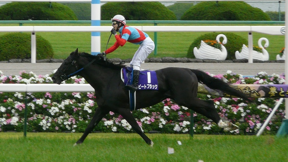 Beat-black20120429(1)